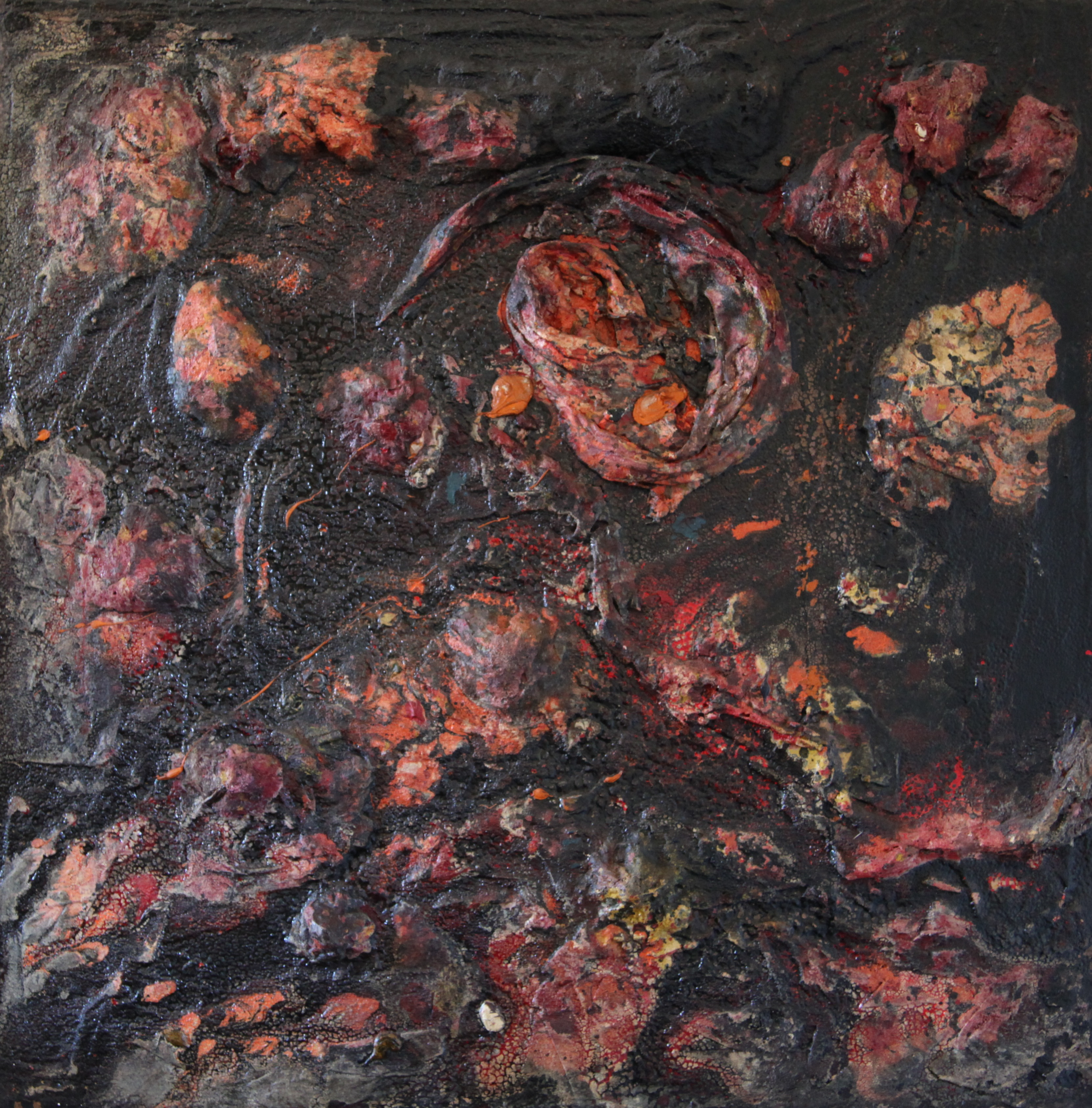 Untitled, 1957, oil on canvas painting by Christo Coetzee, signed and dated verso, annotated '4 Rue l'Hotel Colbert (5) Galerie Stadler 51 Rue de Seine Price 40 000 f